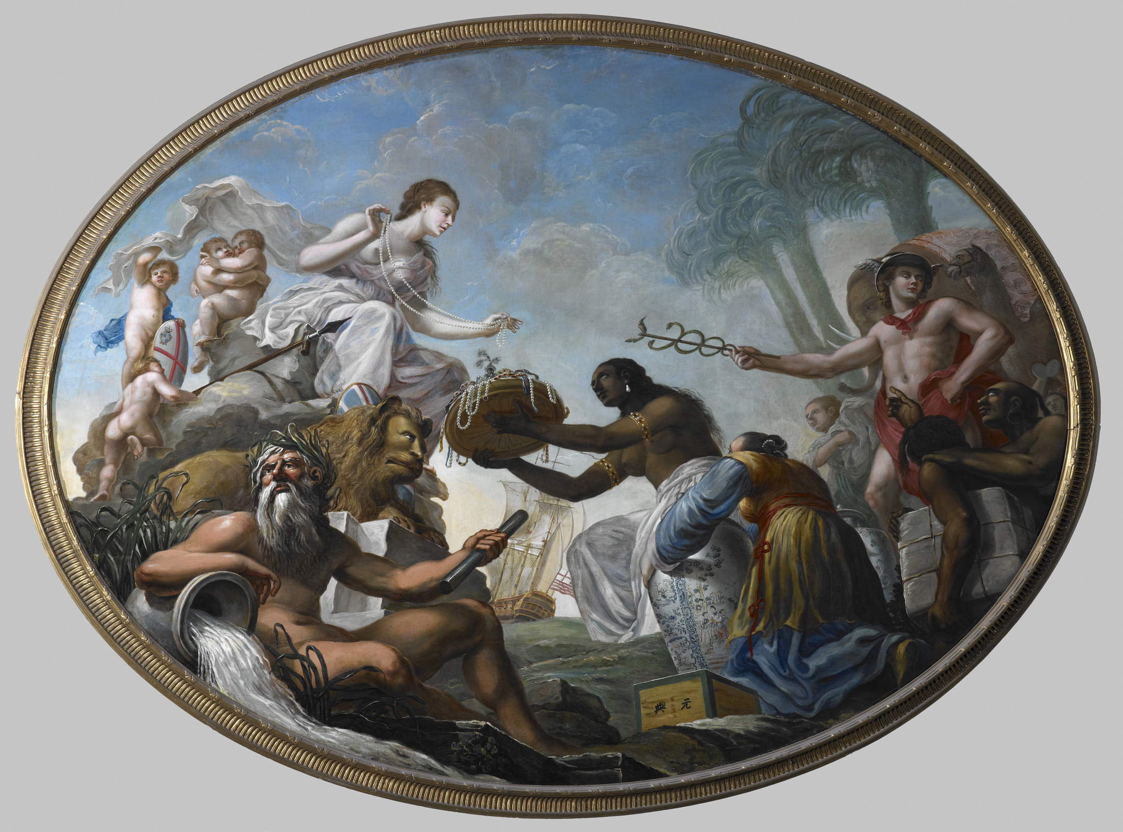 The East offering its riches to Britannia. The East offering its riches to Britannia. Allegorical ceiling piece commissioned by the East India Company in 1777 for the Revenue Committee Room in East India House. Oil on canvas.